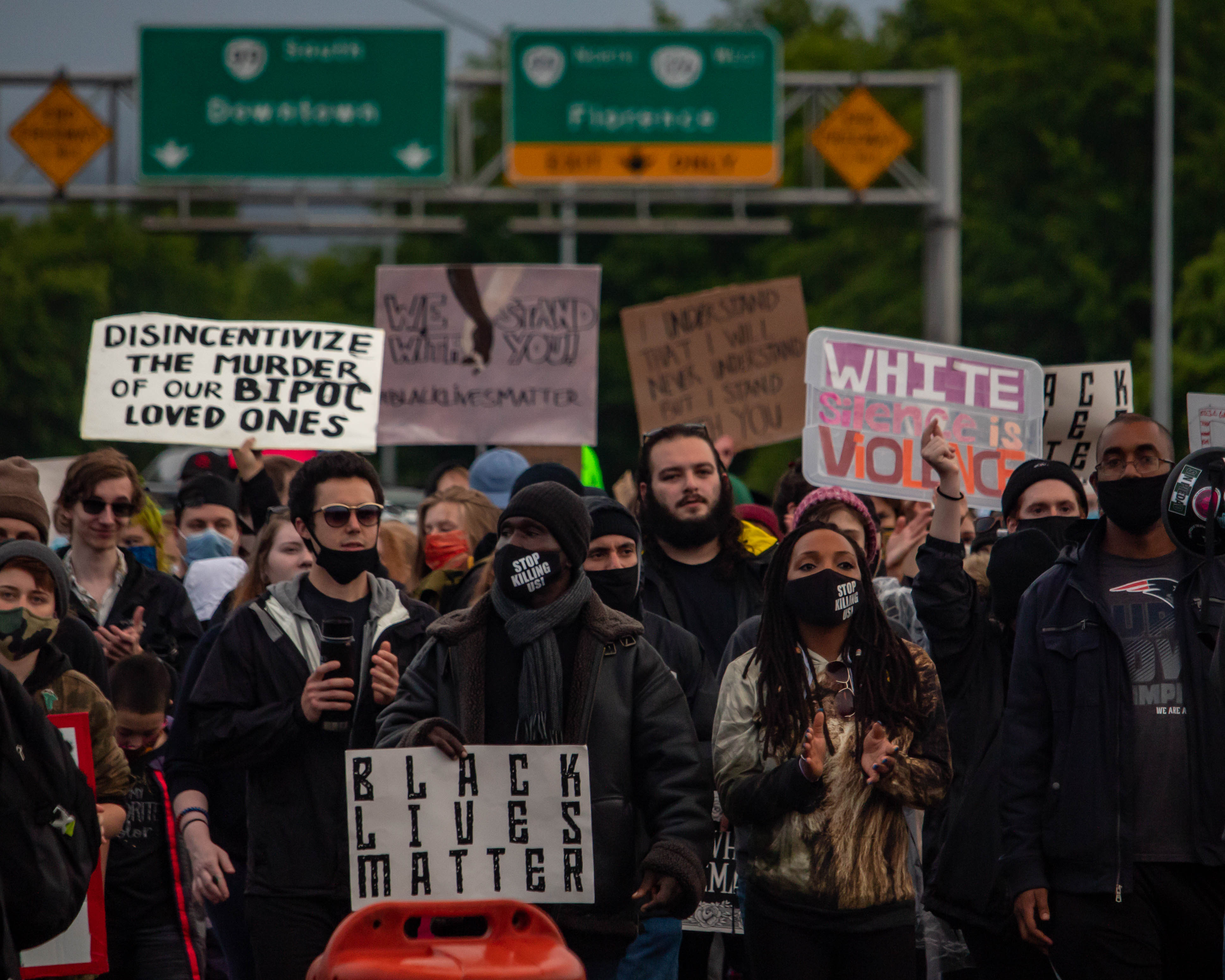 BLM took over the local interstate.